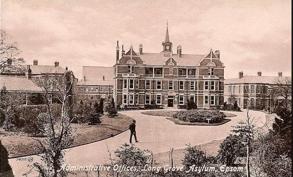 Postcard of Long Grove Asylum